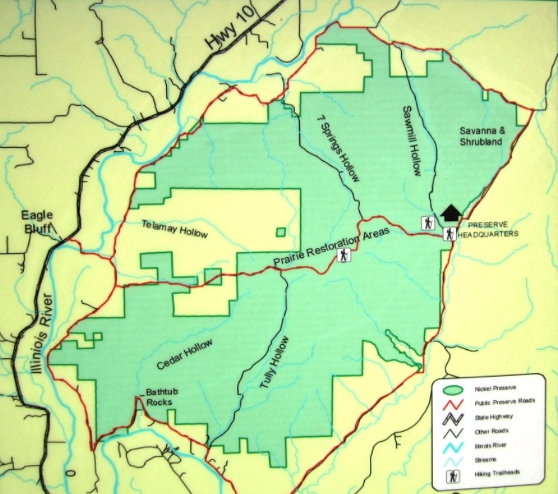 A photo of a map of the J. T. Nickel Family Nature and Wildlife Preserve, posted at the Visitor Center. Located in Oklahoma.